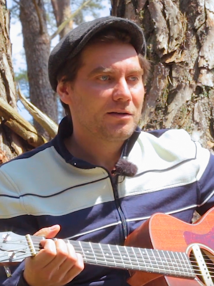 Auke Hulst 4-10-2017